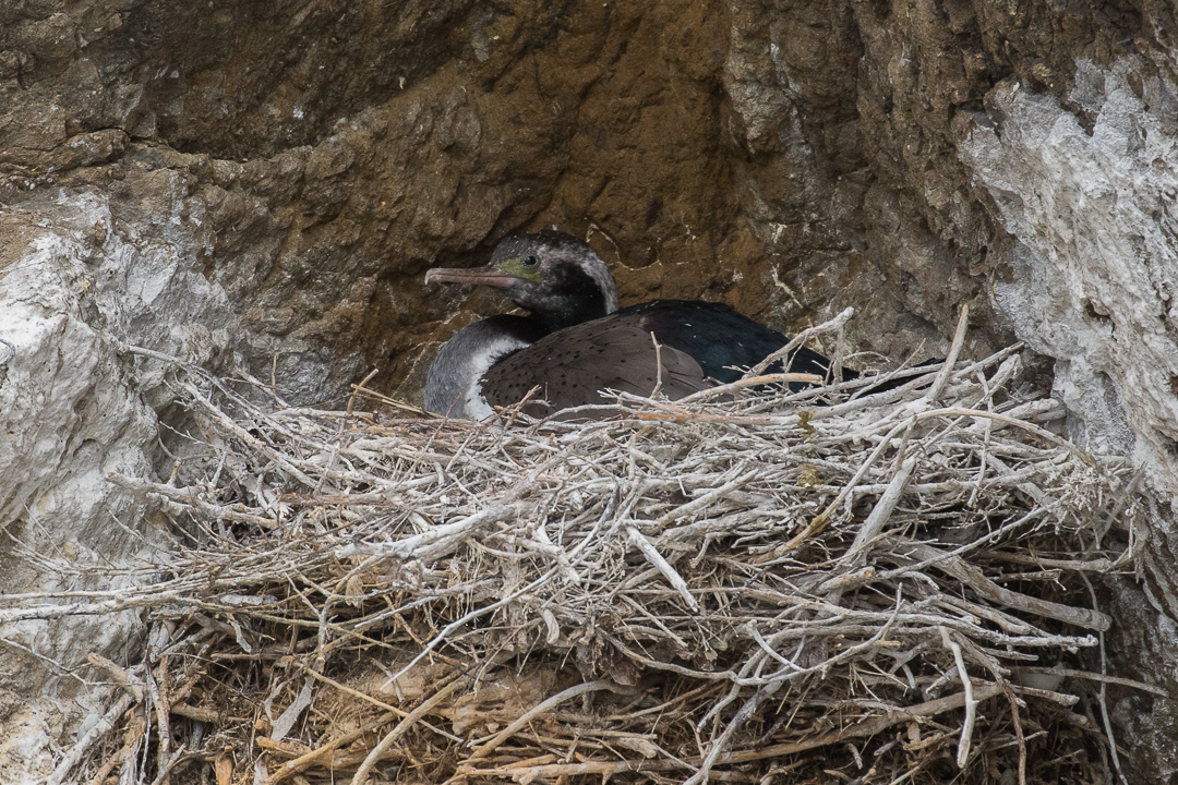 Spotted Shag - Picton - New Zealand_FJ0A1944